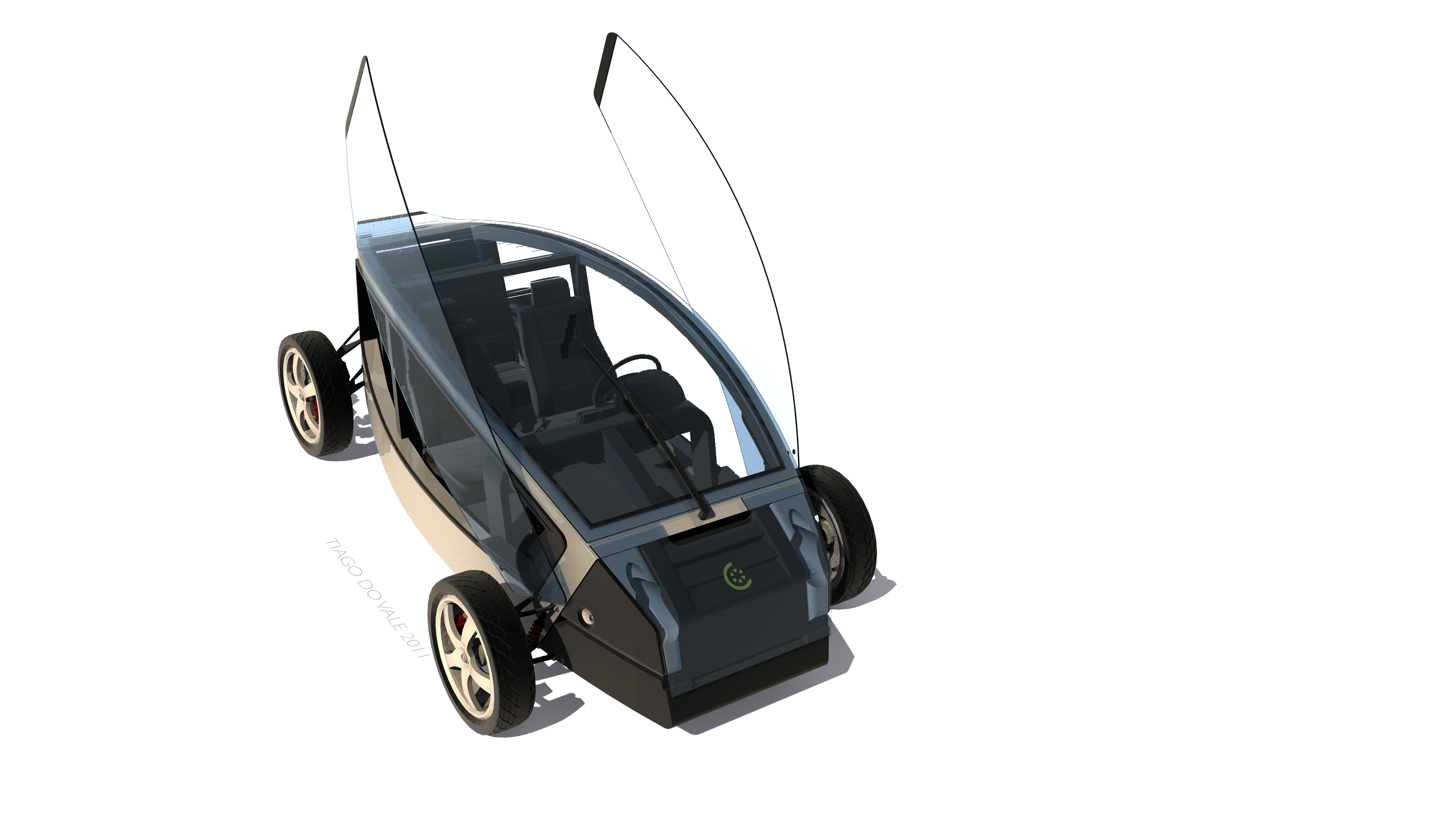 OScar - Open Source Car - design proposal. (As designed by me, Tiago do Vale, in December 2006.)